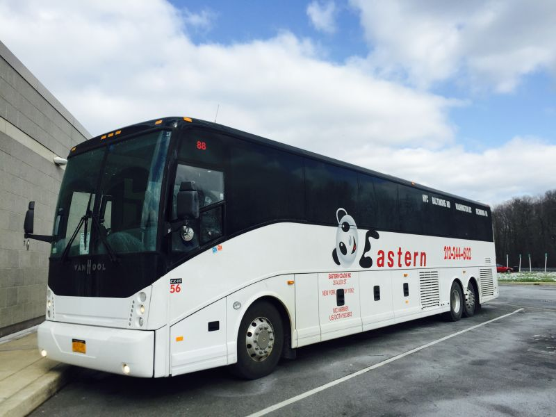 A bus under Eastern Bus, a Chinatown bus company.